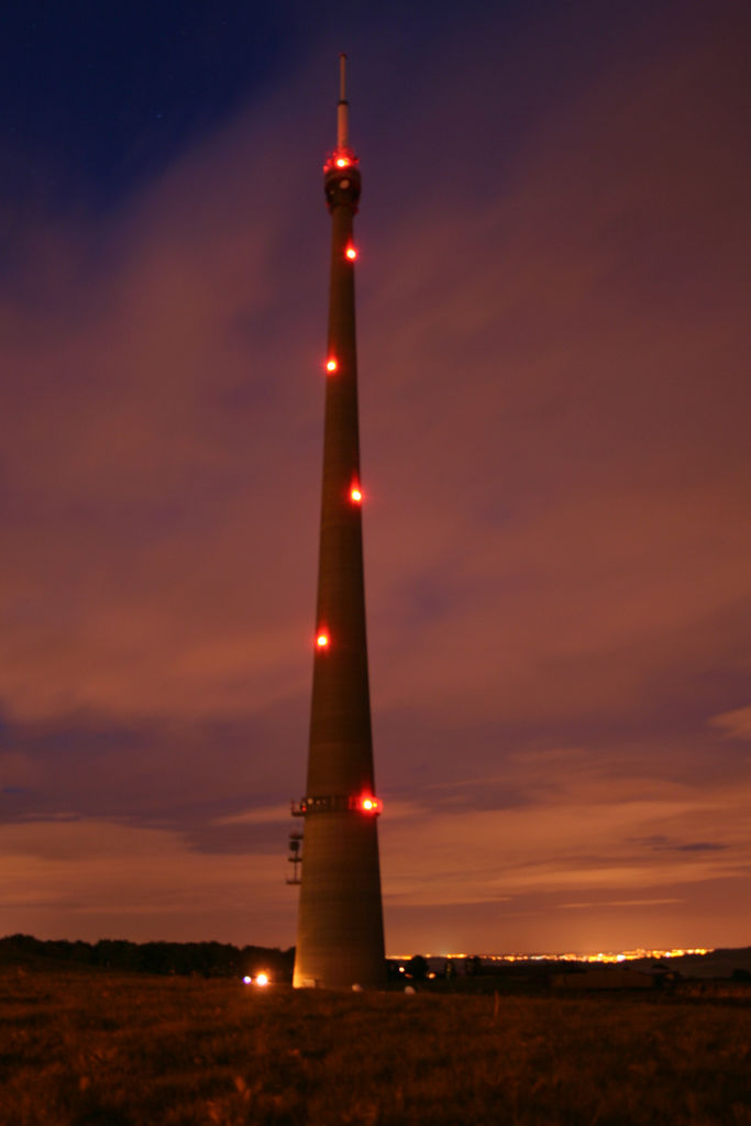 Emley Moor Tower by night.